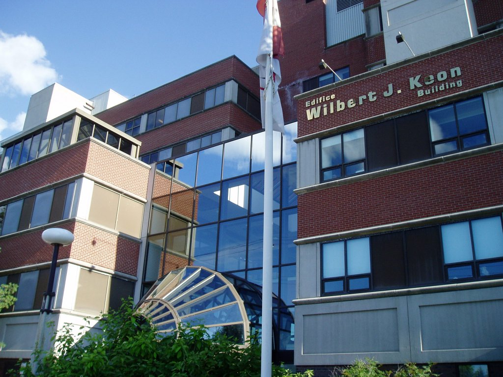 Taken by SimonP in September 2005